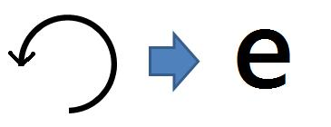 譯作e-Beam的人認為e不只代表電子(electron)，更代表電子飛行的螺線路徑